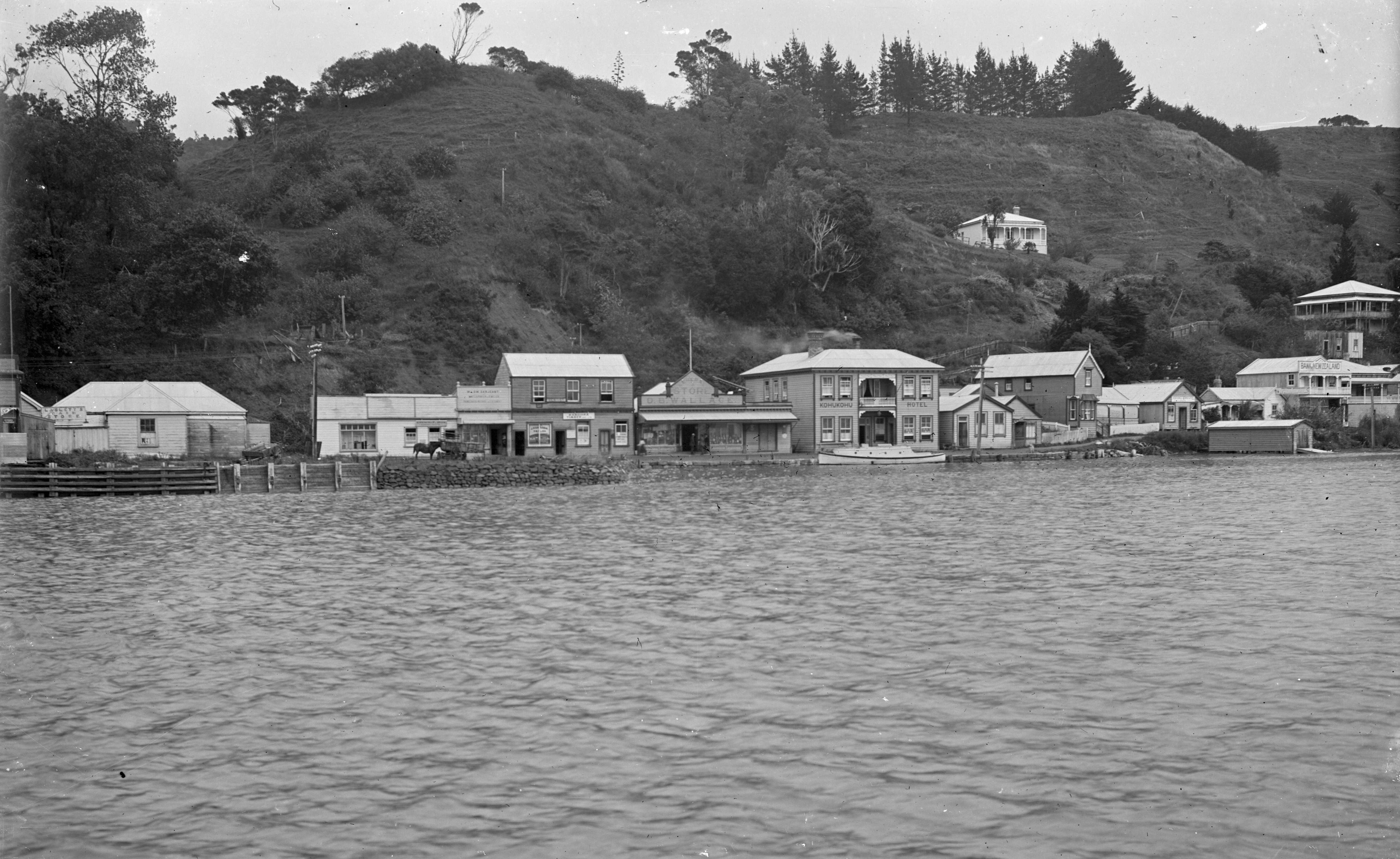 View of Kohukohu township on the northern shoreline of the Hokianga Harbour. On the foreshore there are various business premises including the Kohukohu Hotel, the Bank of New Zealand, D B Wallace Store, Laslett's Cash Store, and W L Sargeant (machinist). Photograph taken by Albert Percy Godber, in 1918.